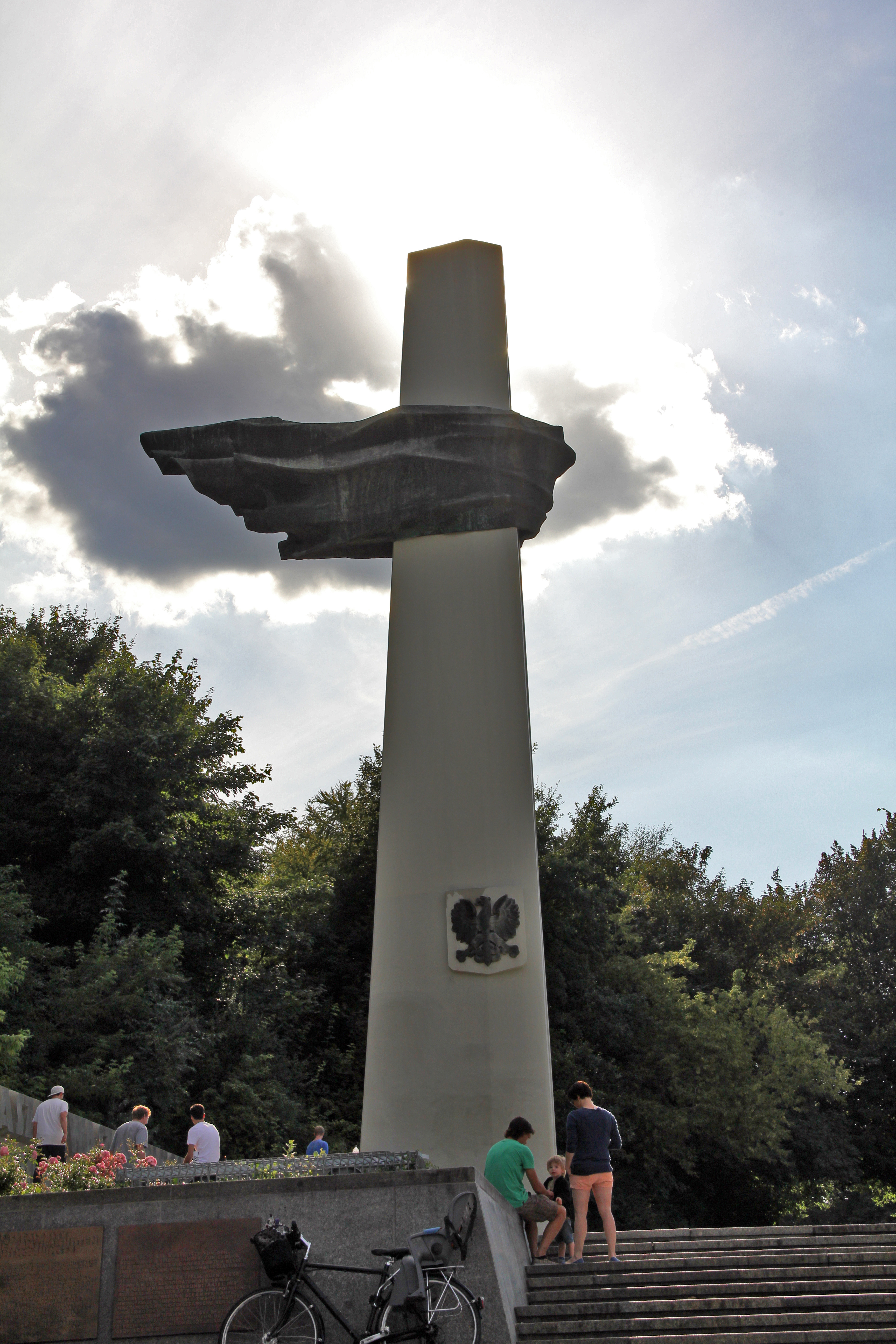 Memorial, Denkmal des polnischen Soldaten und der deutschen Antifaschisten by Arndt Wittig, 1972, Virchowstraße, Berlin-Friedrichshain, Germany